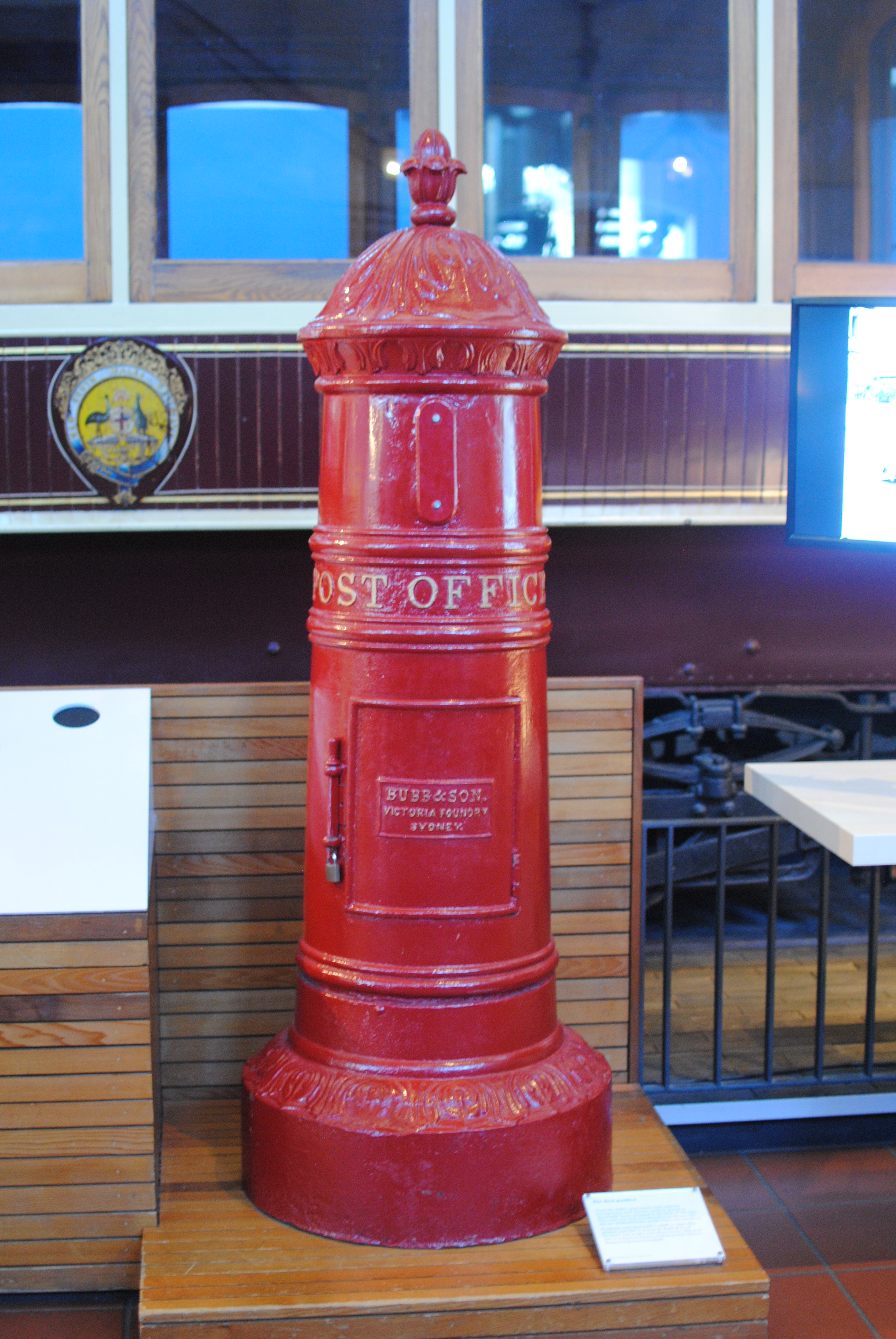 in the Powerhouse Museum, Sydney, NSW, Australia. [Camera's clock set to UTC]